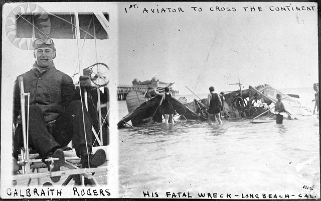 Left: Calbraith "Cal" Rodgers at the controls of the Wright CO Model EX "Vin Fiz". Right: The wreckage of the Wright CO Model EX "Vin Fiz". Written above the image, "1st Aviator to Cross the Continent" and written below, "Calbraith Rodgers His fatal wreck - Long Beach"